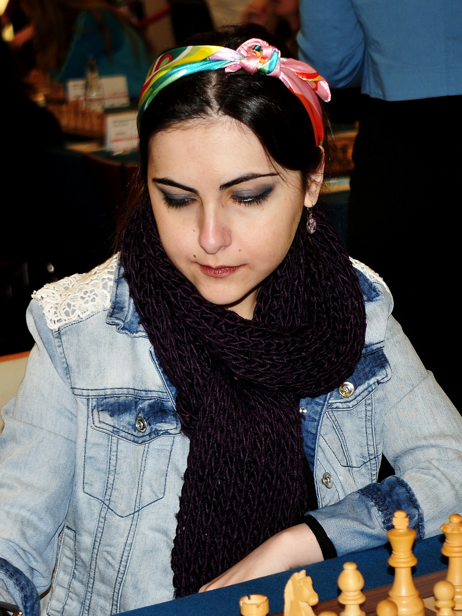 IM Ana Matnadze, European Chess Team Championship Warsaw 2013